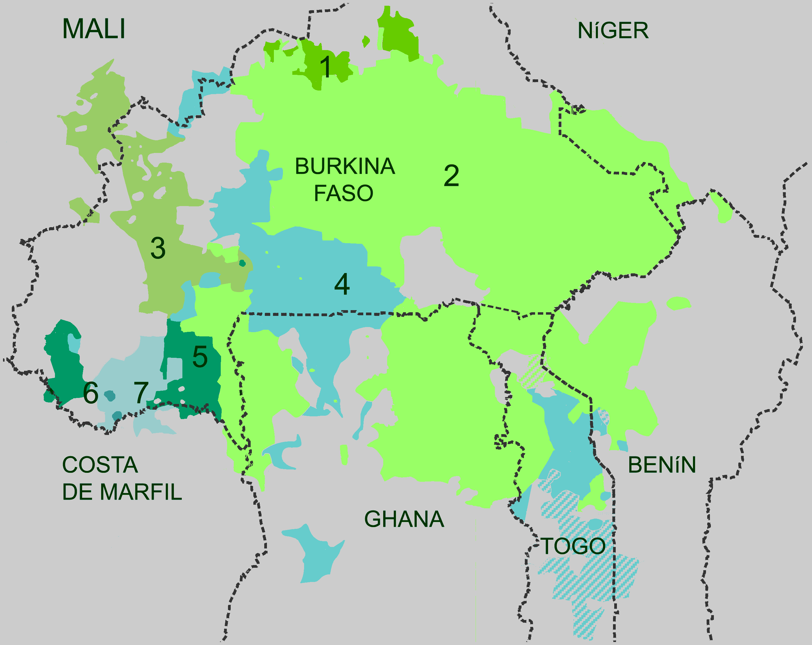 Central Gur languages: Koromfé Oti–Volta languages Bwamu Gurunsi Kirma–Lobi Dogoso–Khe Doghose–Gan